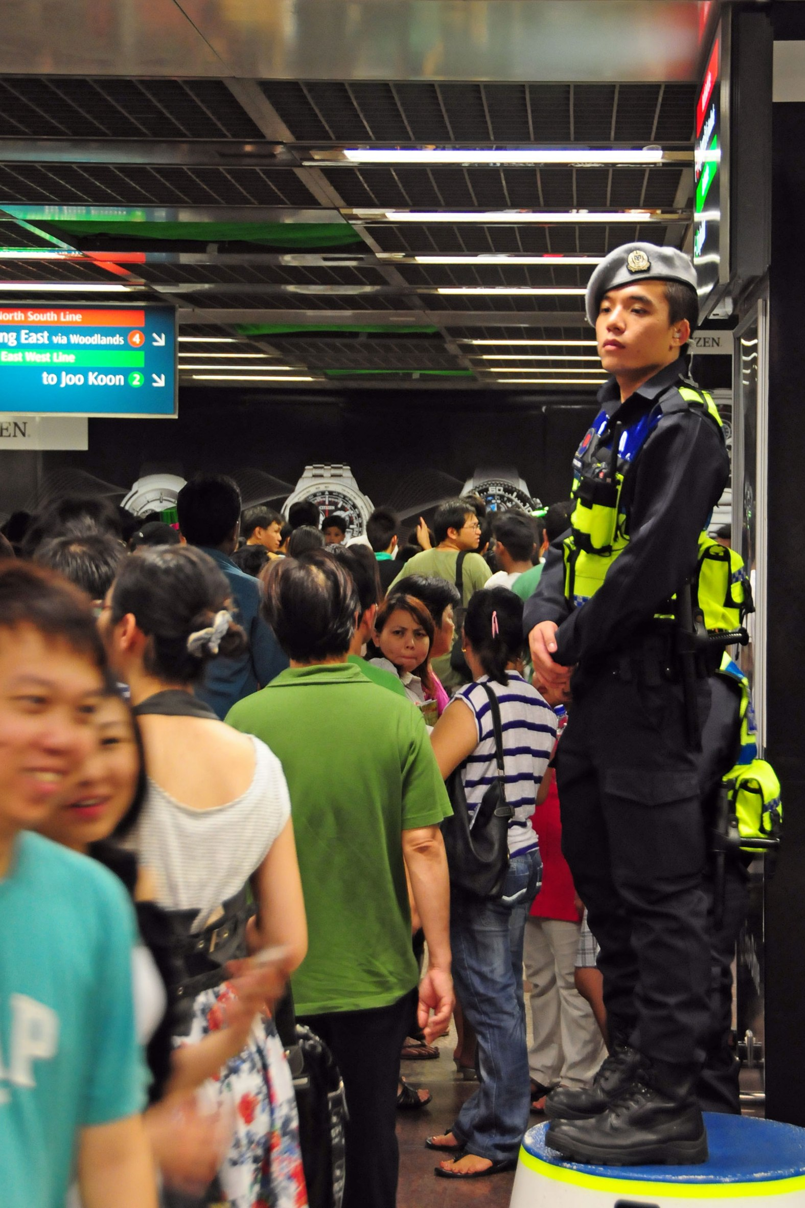 A Singapore Police Force officer from the Public Transport Security Command surveys the high traffic volume in the immediate hours after the 2010 new year celebrations at City Hall MRT Station. The officer dons a new light-grey-coloured beret which was introduced on 30 December 2009 and which replaces the dark blue one.